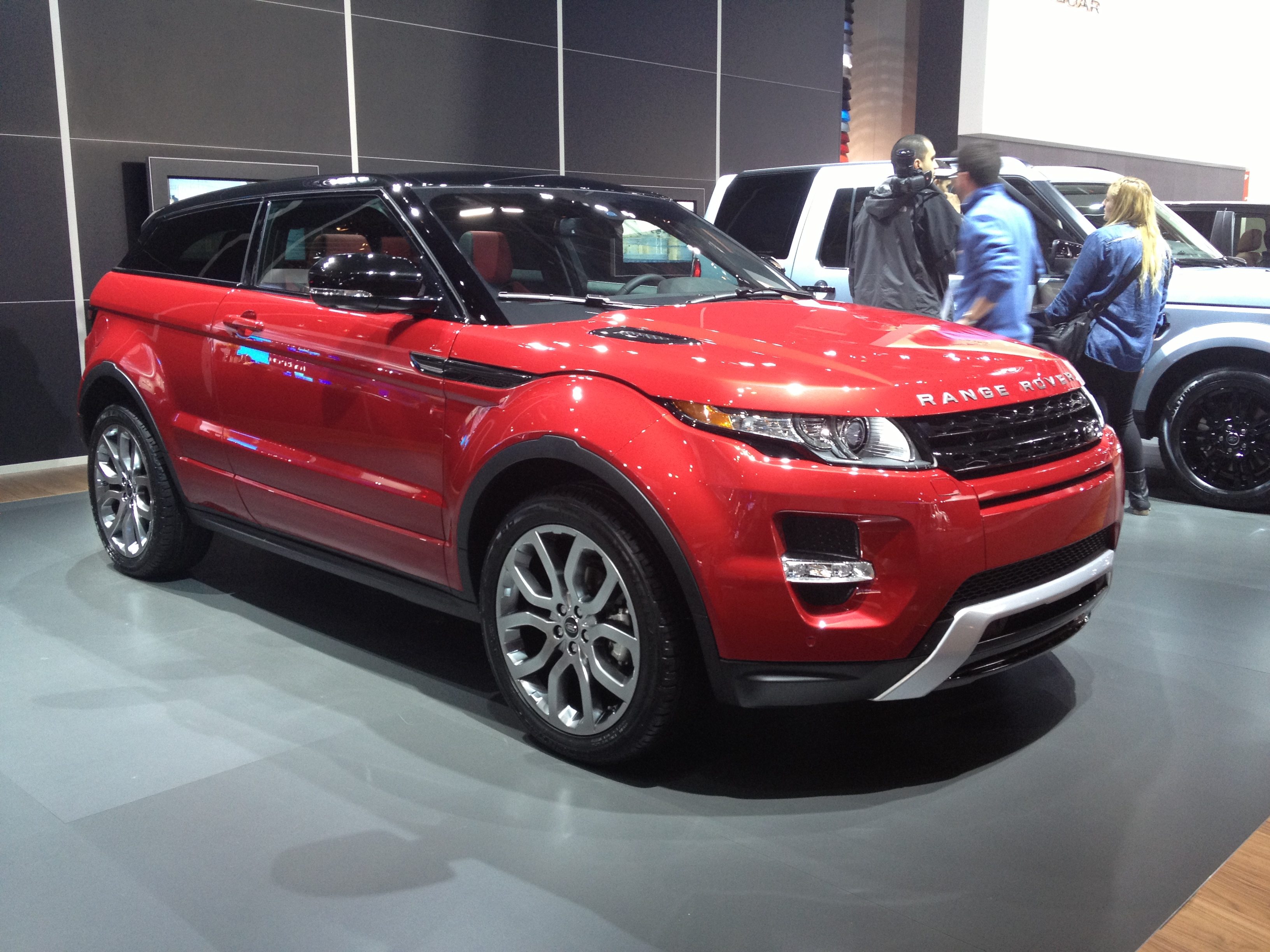 2013 North American International Auto Show Detroit, Michigan